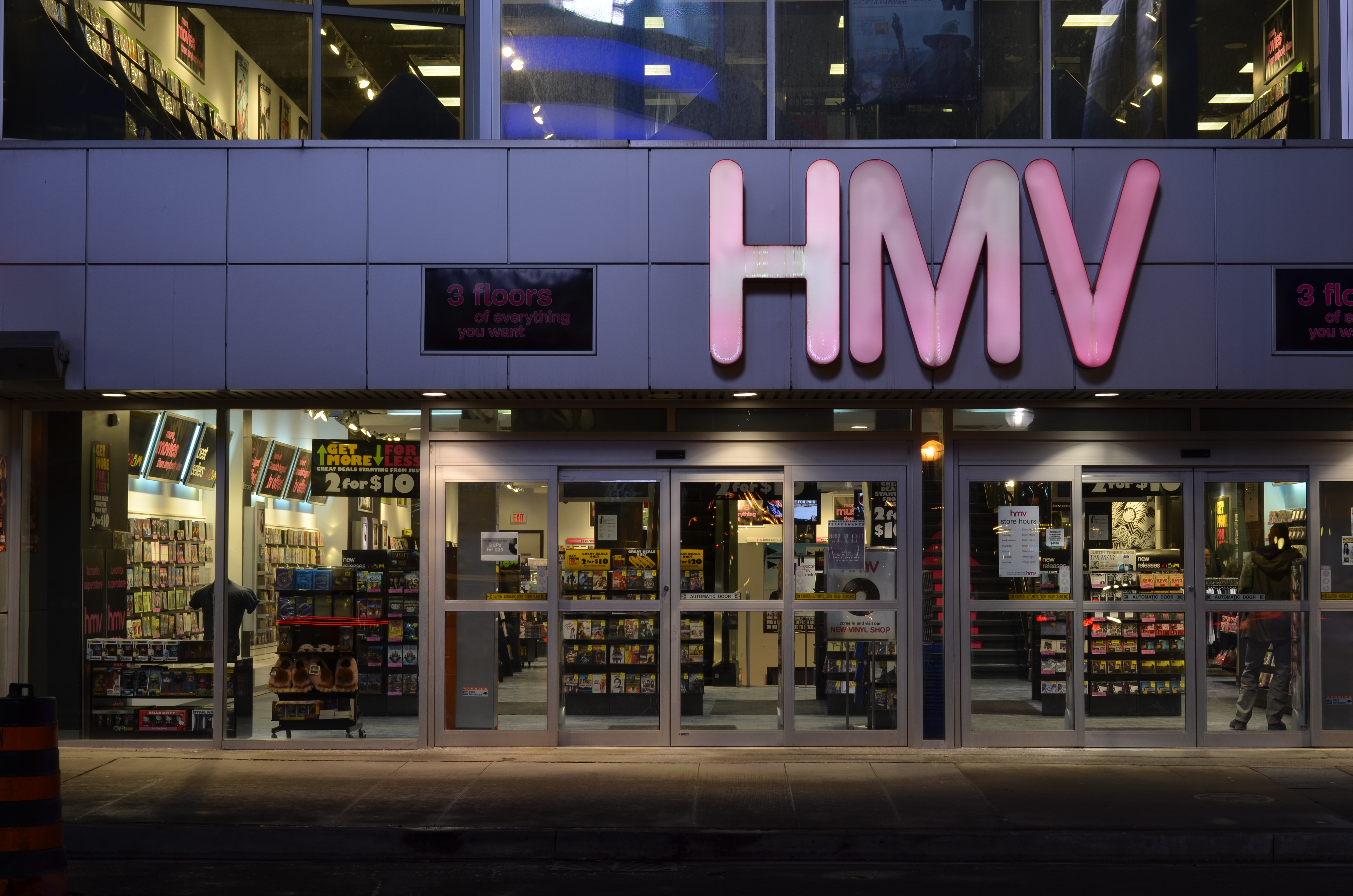 HMV @ 333 Yonge Street, Toronto